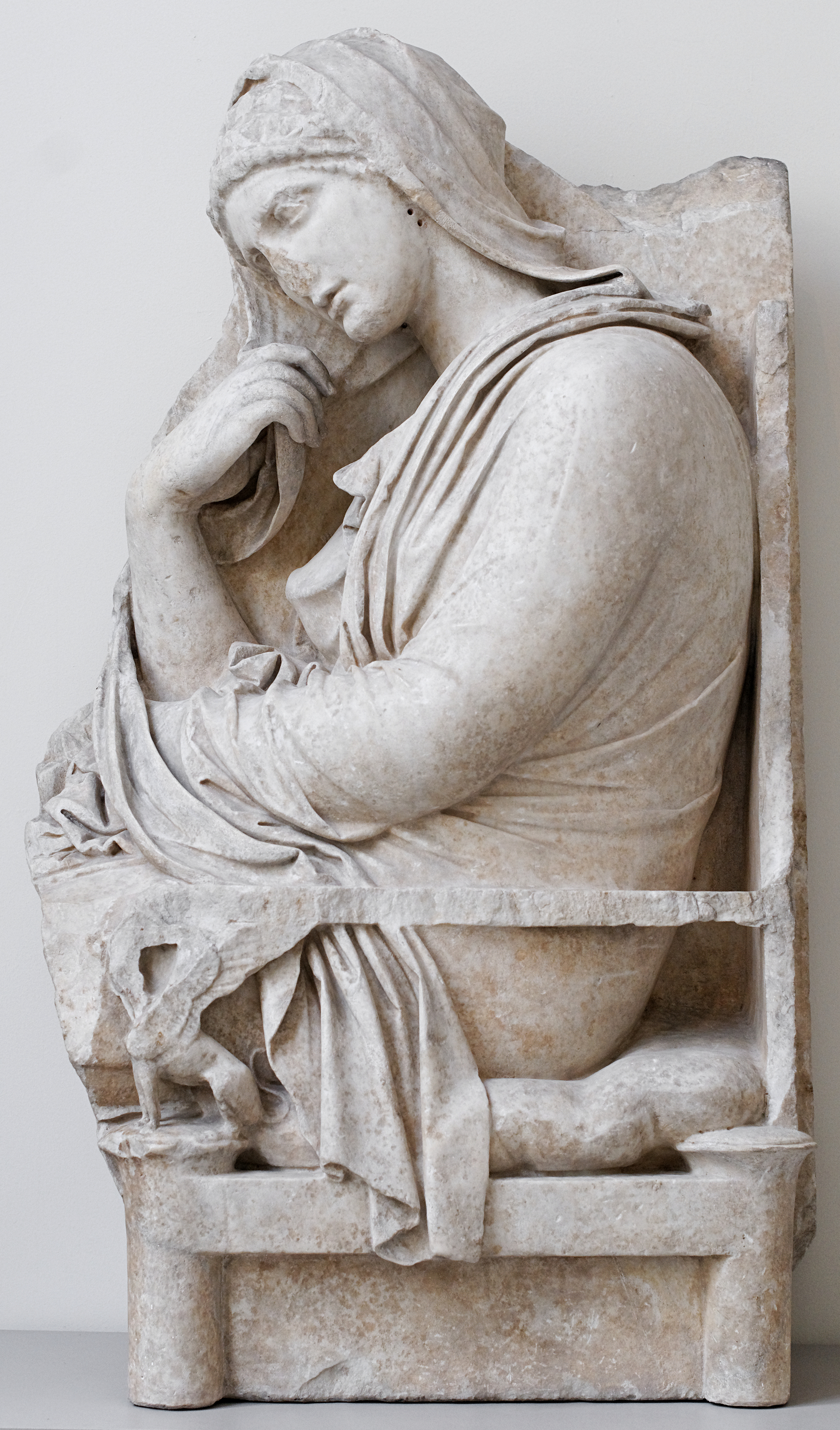 Grave marker of a woman. Greek work of the Late Classical period From Medini (ancient Acharnai), Attica, Greece.